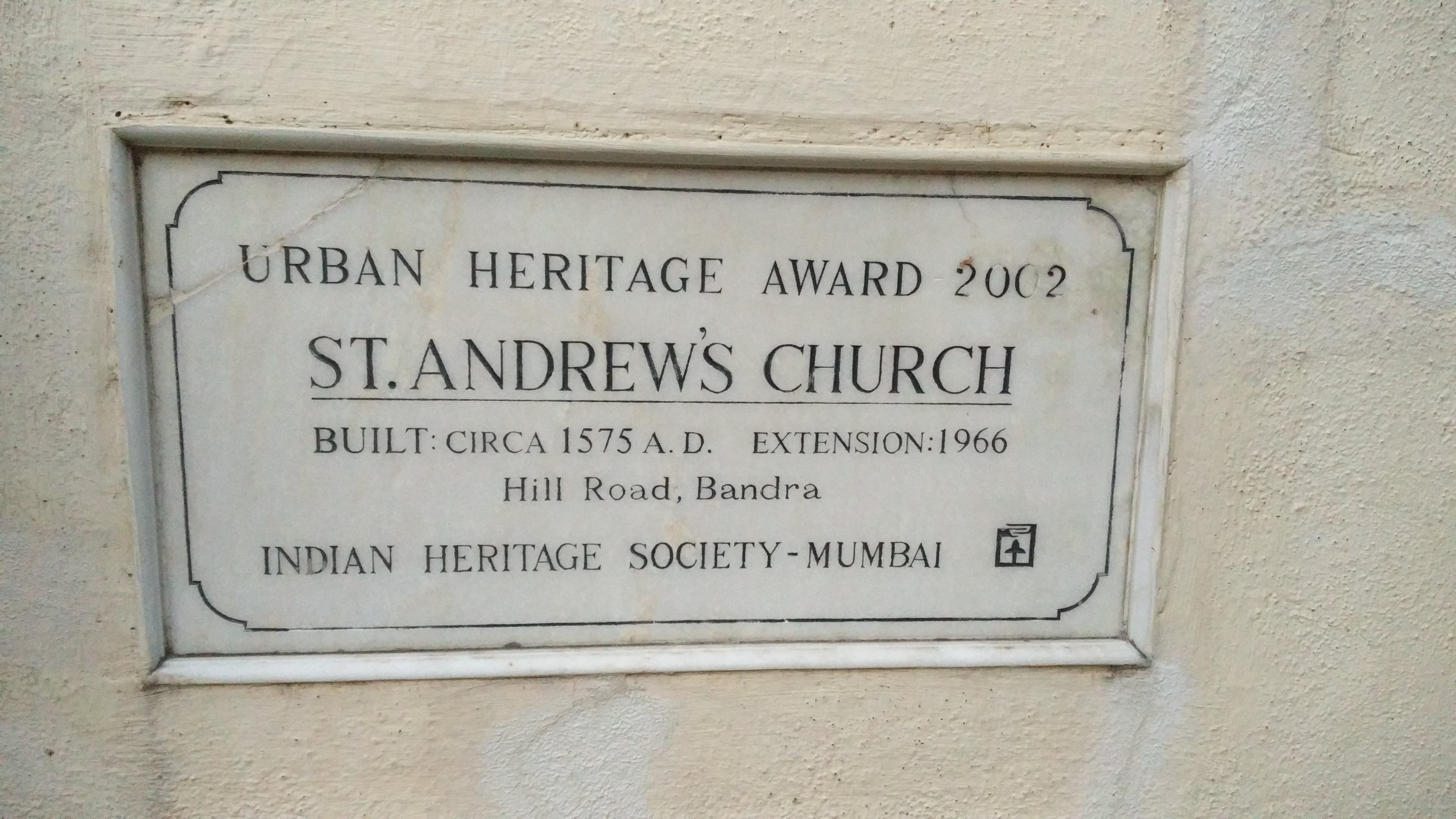 St.Andrew's Church, Bandra Heritage